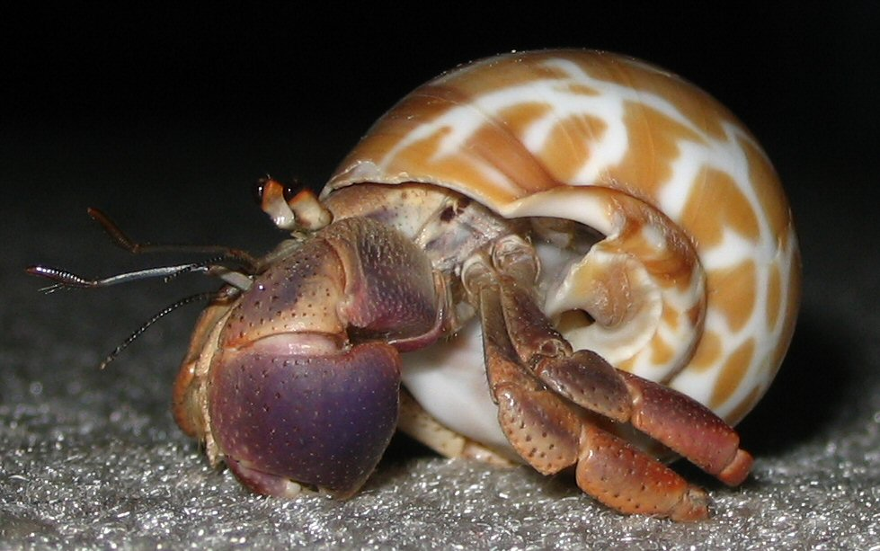 Caribbean hermit crab (coenobita clypeatus)